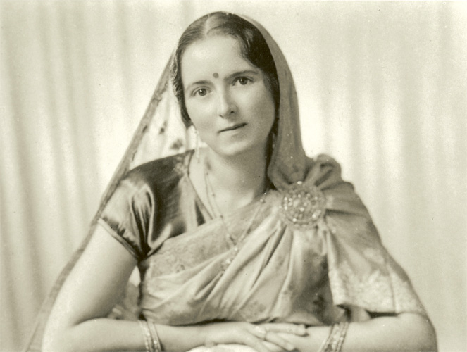 Photograph of Savitri Devi, 20th Century Neo-Nazi, taken 1 December 1937.